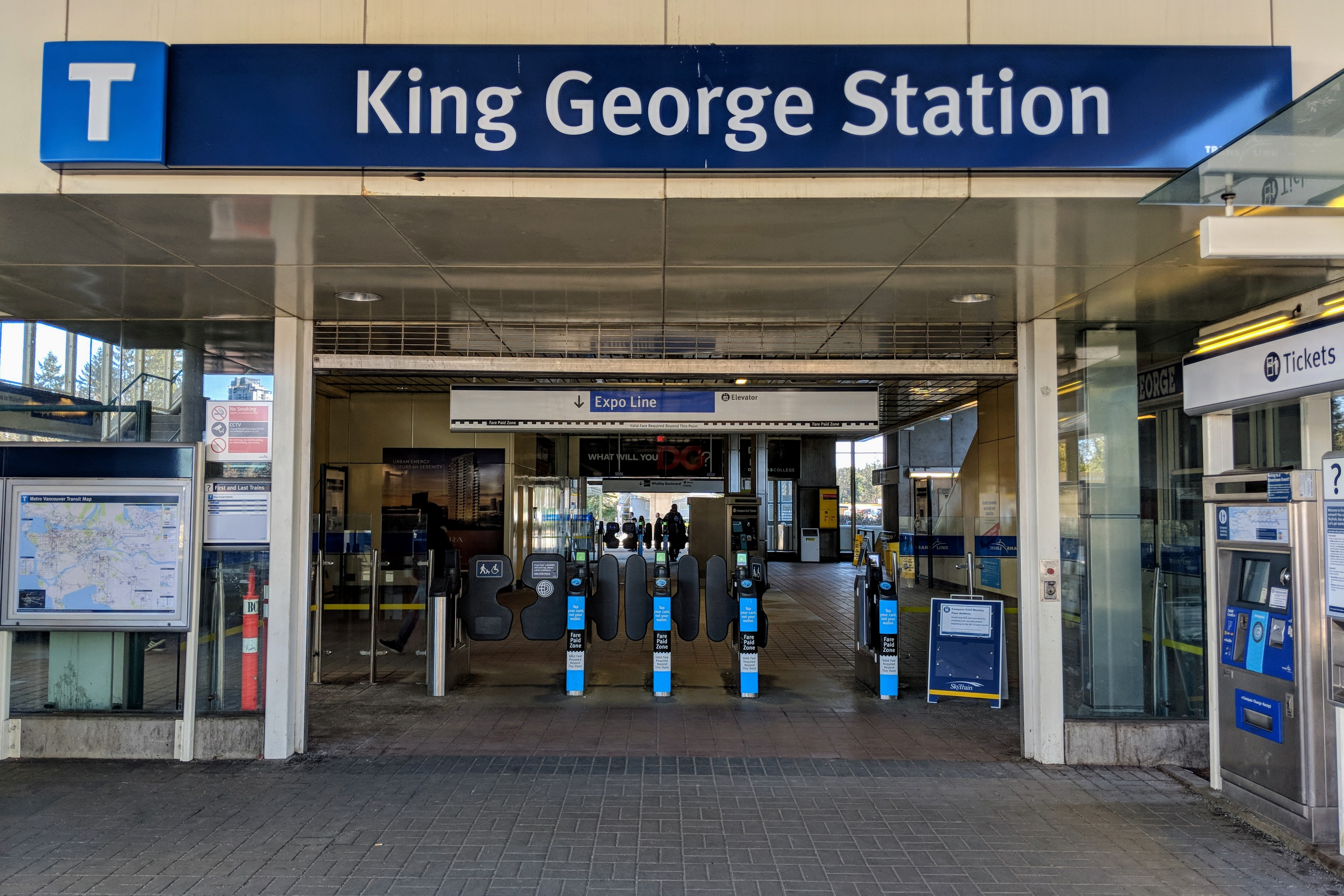 King George's western entrance, buses terminating at Surrey Central drop off here.